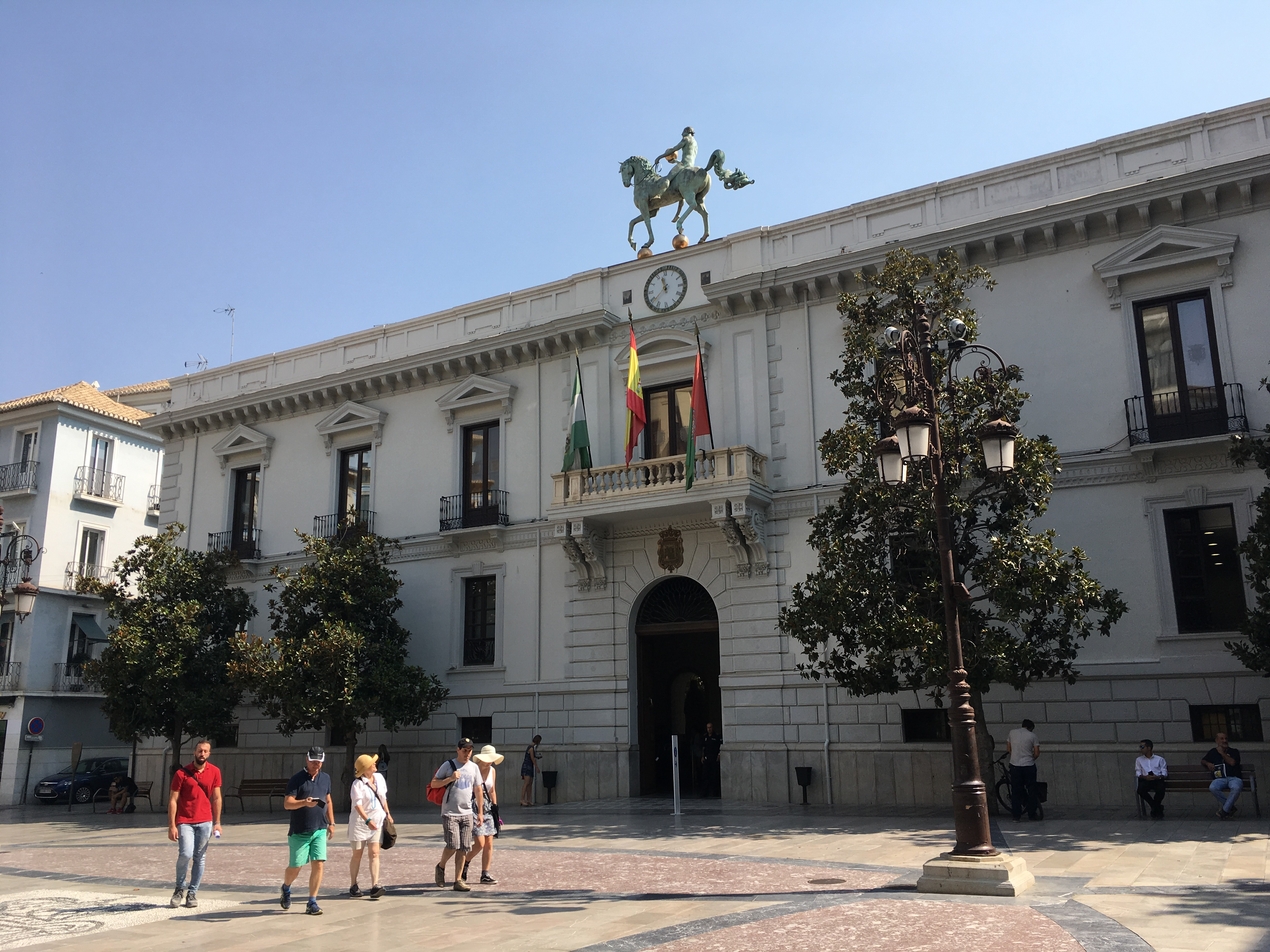 Granada City Hall, Spain